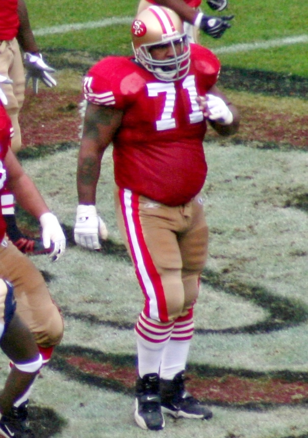 San Francisco 49ers offensive guard Larry Allen in 2007